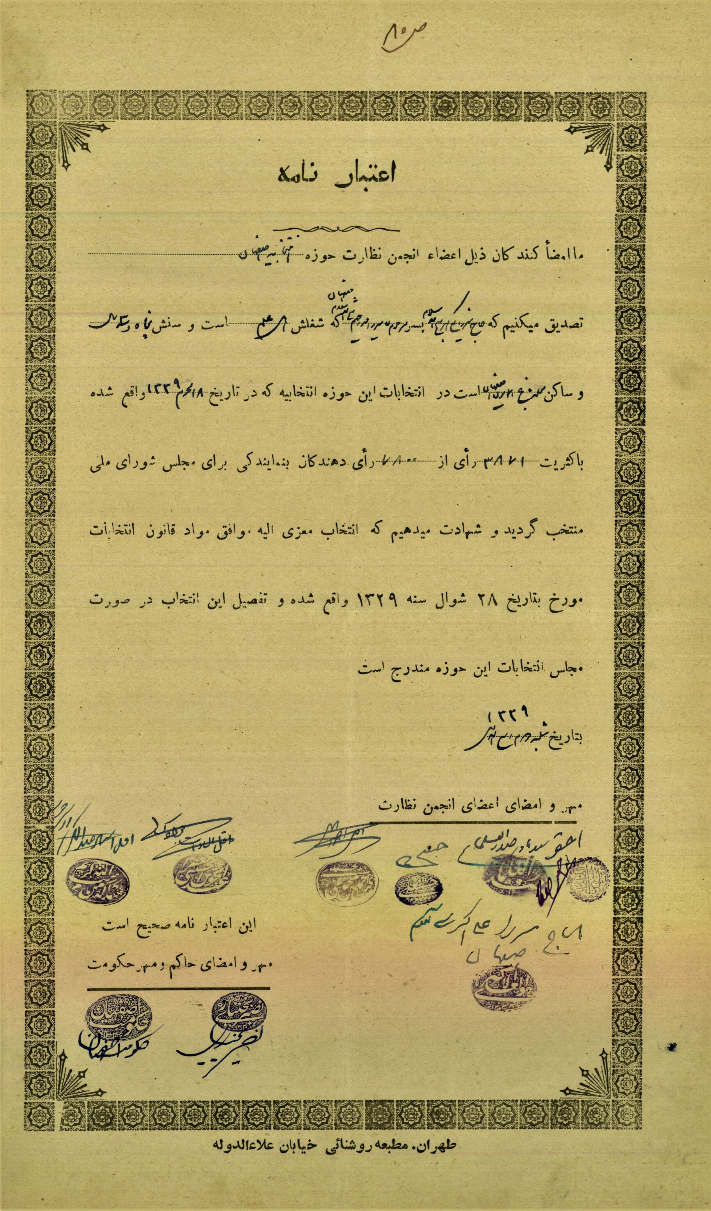 Certificate of Election Result of Mirza Ali Akbar Sheikholeslam (1867 - 1932 AD). He was elected as the representative of Esfahan (3871 of 7800 votes) on 1920/10/02 for the fourth house of parliament. He served from 1921/06/21 to 1923/06/20.